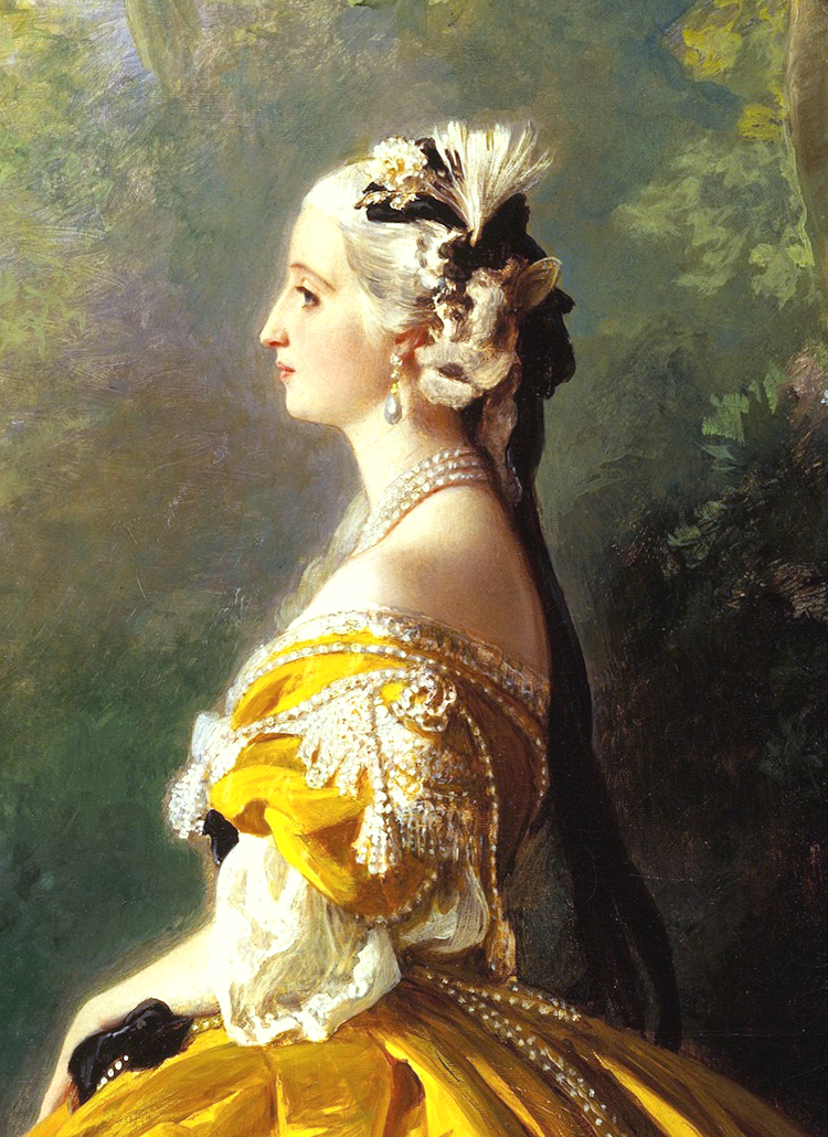 Empress Eugénie in a dress inspired by those worn by Marie-Antoinette.